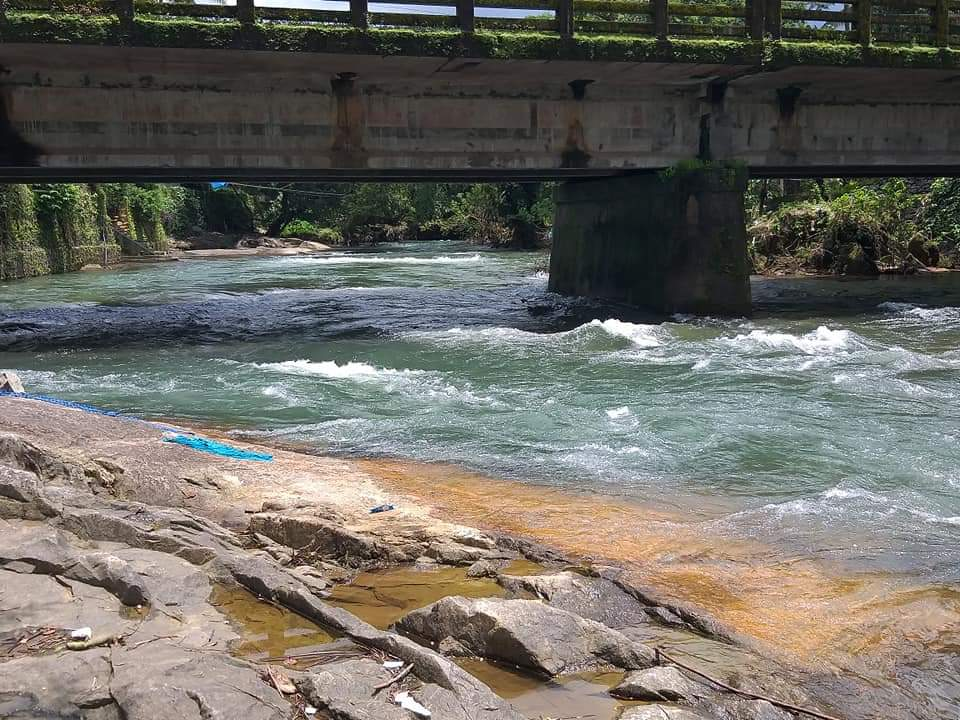 Thotilpalam bridge